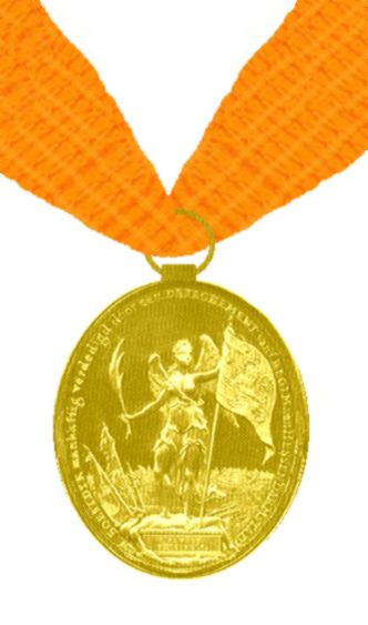 Medal awarded to the defenders of Soestdijk in 1787